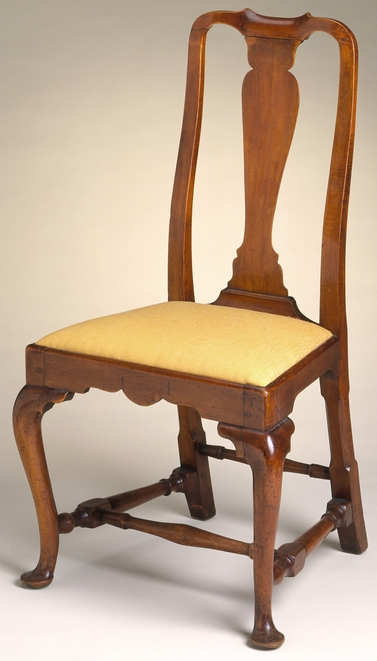 United States, Massachusetts, 1740-1770 Furnishings; Furniture Maple, upholstery (replaced) Height: 40 in. (101.6 cm) each Mr. and Mrs. Allan C. Balch Fund (M.56.18.2a-b) Decorative Arts and Design